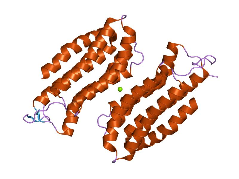 Cartoon representation of the molecular structure of protein registered with 1s0p code.